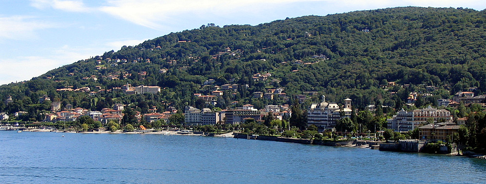 Stresa, as seen from the Borromean Islands